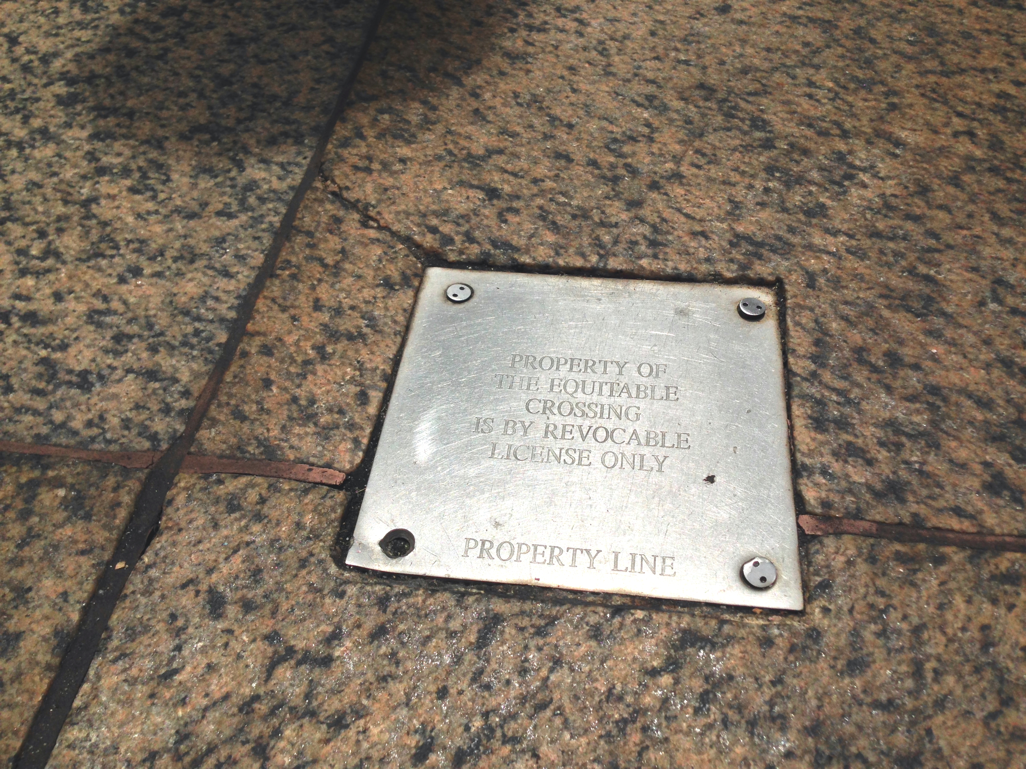 A private property line plaque embedded in the New York City sidewalk that reads, "Property of [company name] crossing is by revocable license only" to declare the the rights of private property owner. The public is allowed to cross and utilize the space by "revocable license' only. This is an appearance attempt by the property owner to prevent the walkway space that is open to the public to use as part of the sidewalk from becoming a public right of way by the mean of a prescriptive easement.